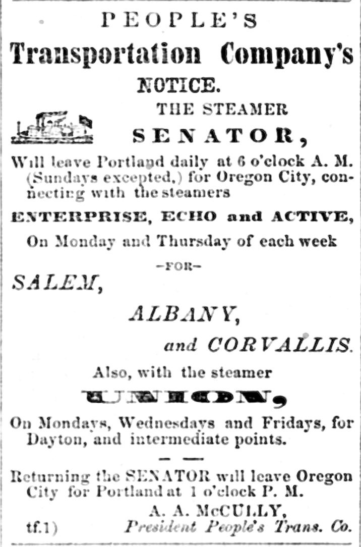 People's Transportation company advertisment for steamer service on the Willamette River.